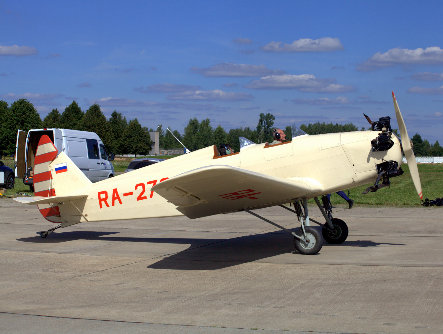 Restored Yakovlev UT-2 (RA-2724G) at Kubinka airfield